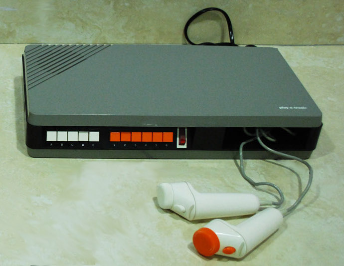 Zanussi console Play-o-tronic. Made in italy. Pong style console